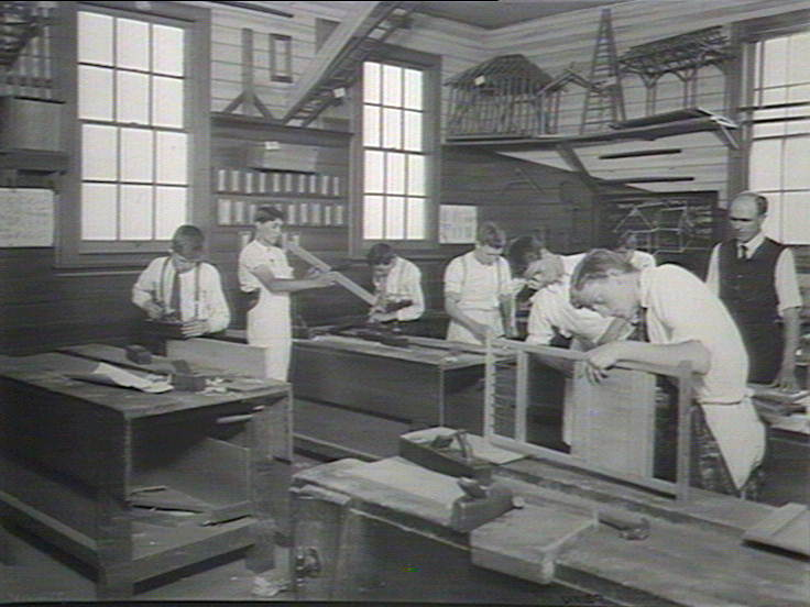 Image title:Manual training, Hurlstone High School Description: Student participating in a manual training class at Hurlstone Agricultural High School, 1913.